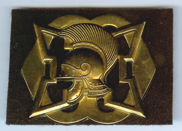 Dutch cap badge of the Officers and Supervisors of Fortifications